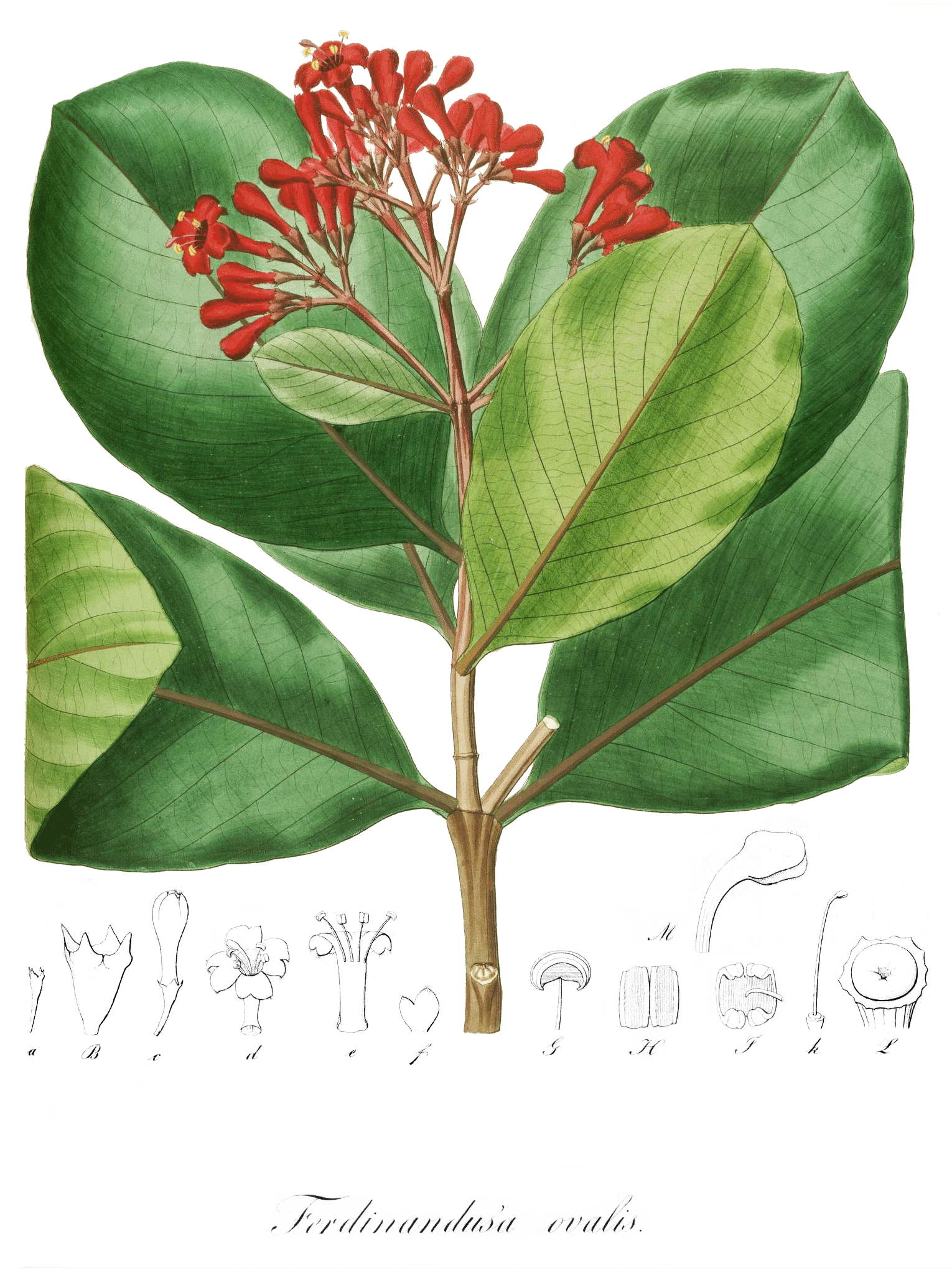 Plate from book